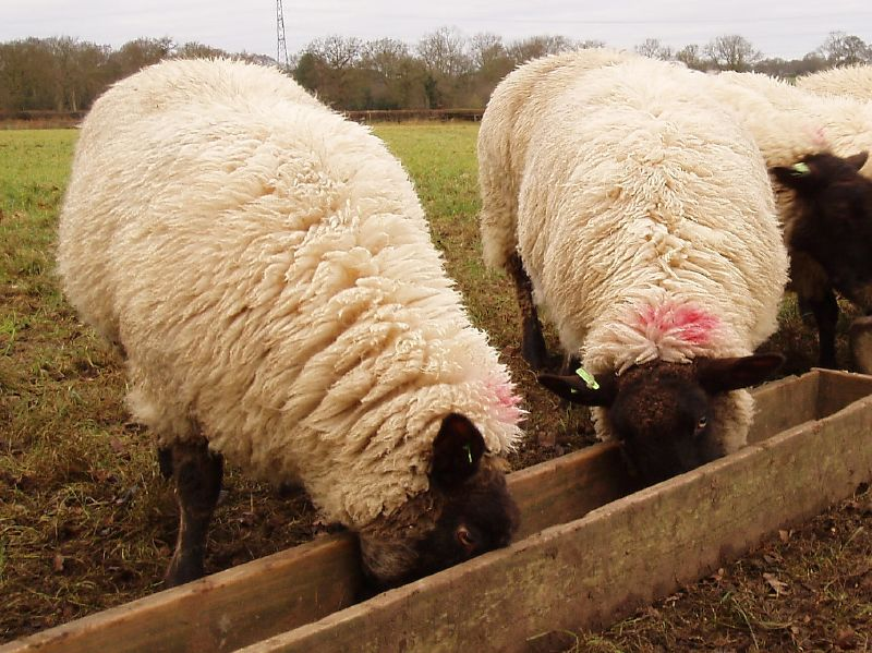 A pair of cross-bred sheep (Suffolk X North Country Mule) eat concentrated feed at a trough.